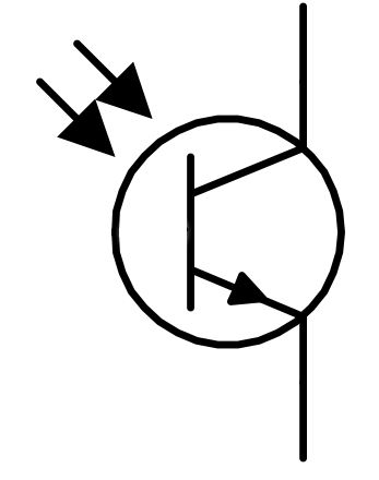 moved to commons